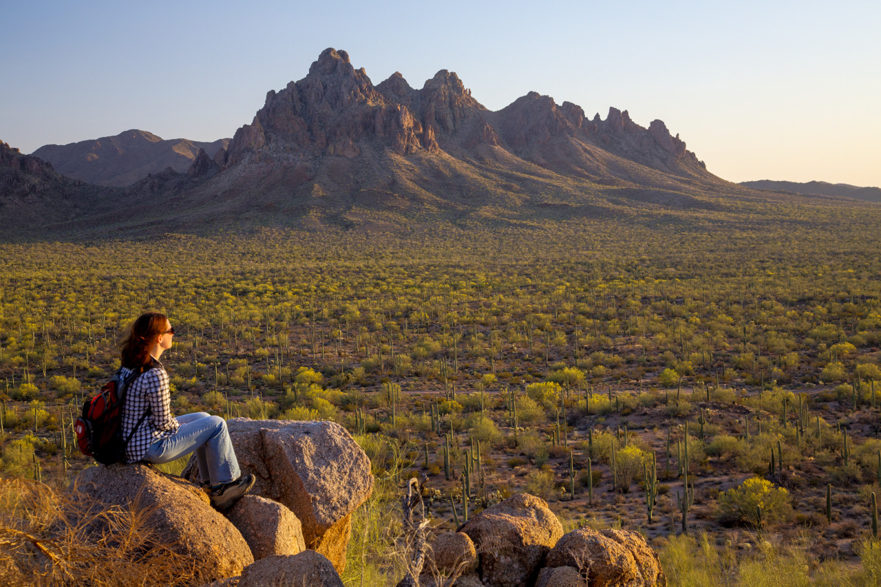 Ragged Top & saguaro forest, Ironwood Forest National Monument